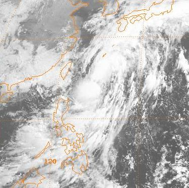 National Climatic Data Center's GIBBS satellite archive ftp://eclipse.ncdc.noaa.gov/pub/isccp/b1/.D2790P/images/1989/174/Img-1989-06-23-00-GMS-3-VS.jpg